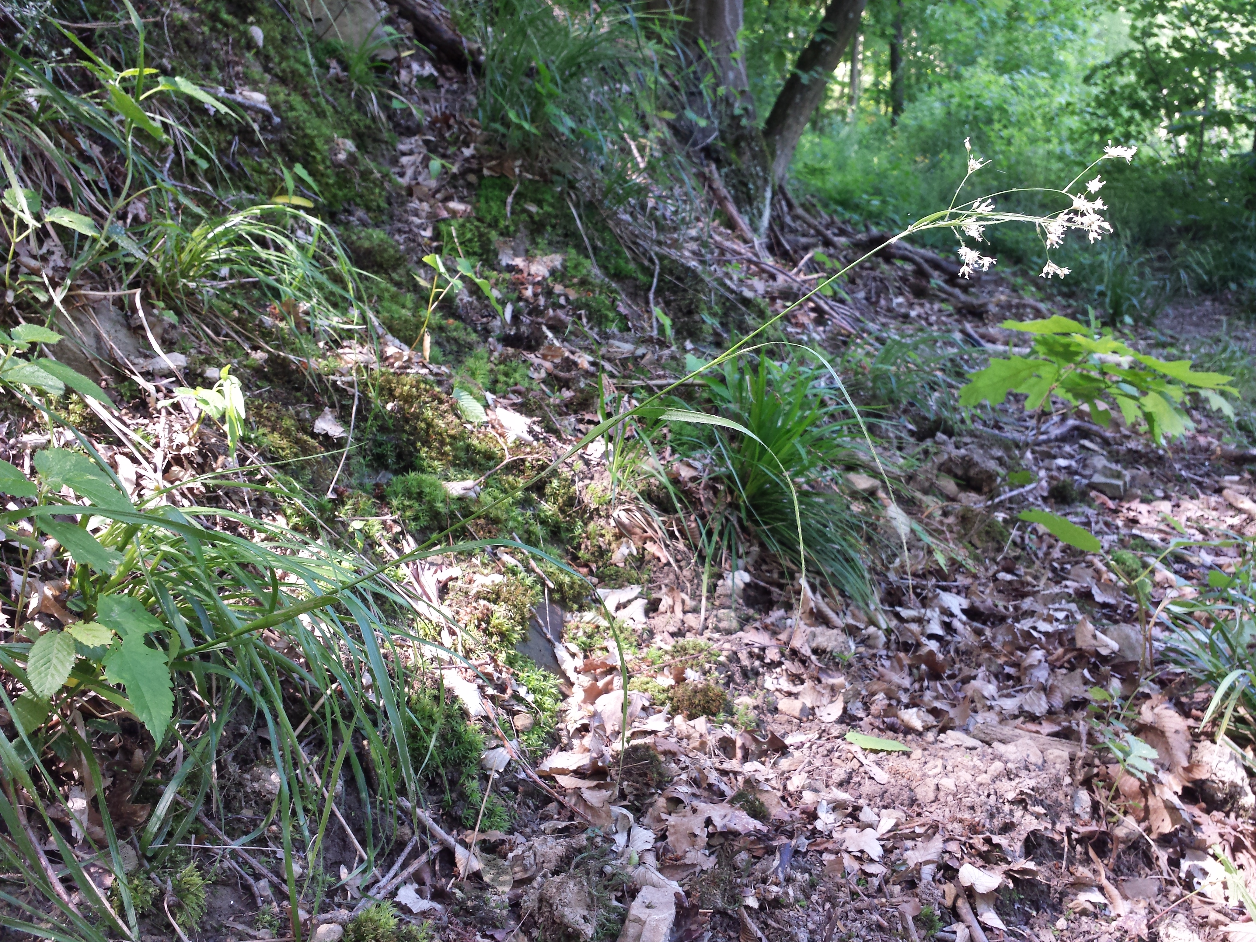 Habitus Taxonym: Luzula luzuloides var. luzuloides ss Fischer et al. EfÖLS 2008 ISBN 978-3-85474-187-9 Location: Kreuttal, district Mistelbach, Lower Austria - ca. 200 m a.s.l. Habitat: dedicious forest